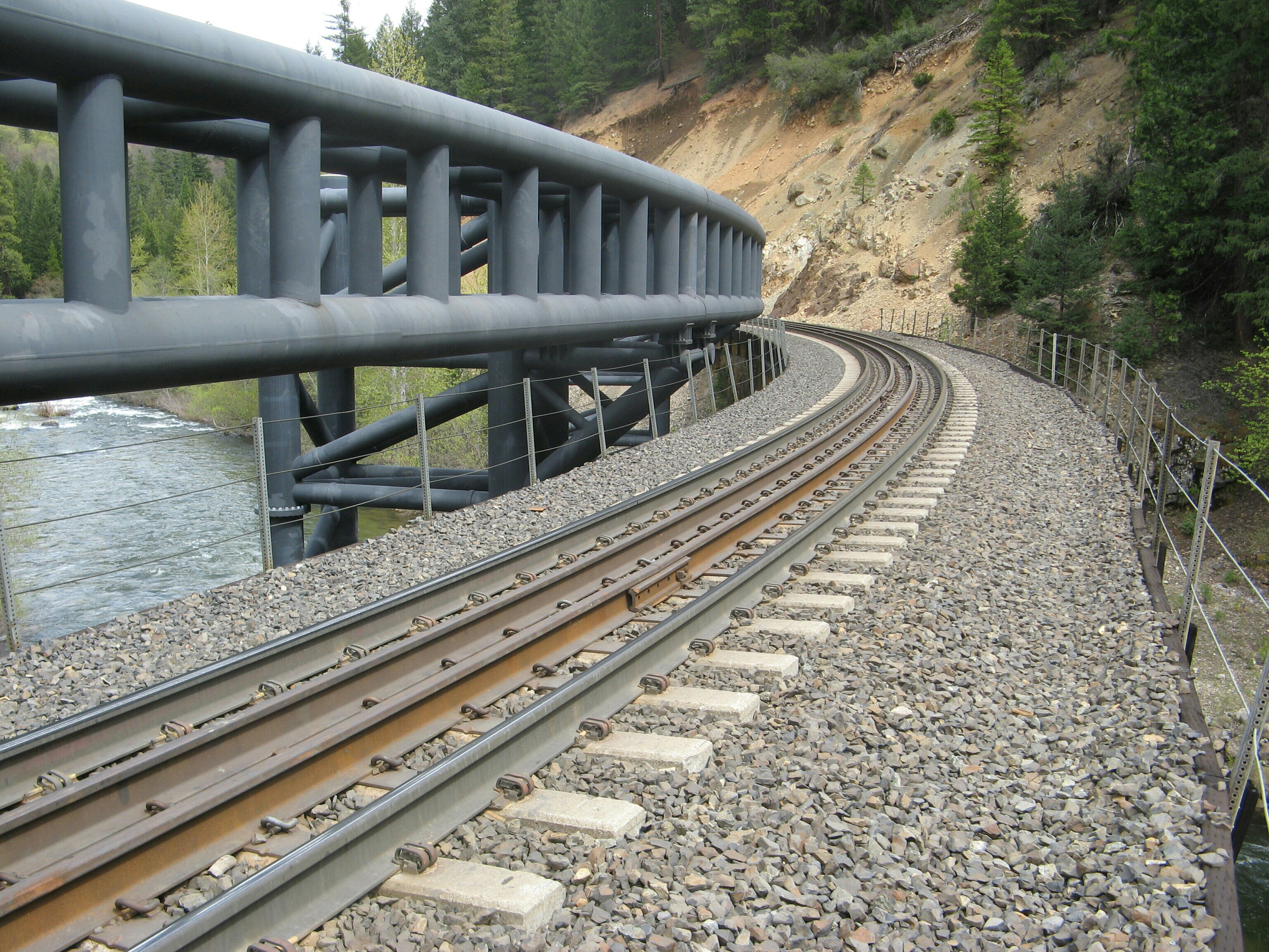 Cantara Loop railway bridge over Sacramento River, California, United States. Guardrail structure on left was installed after 1991 chemical spill